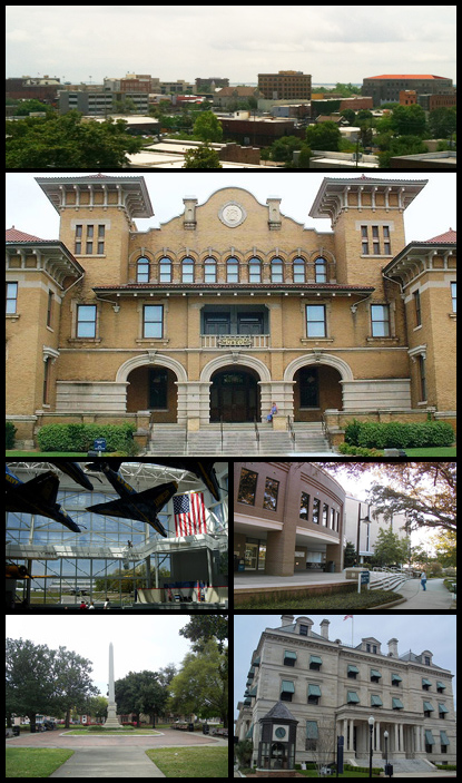 Collage of images from around Pensacola